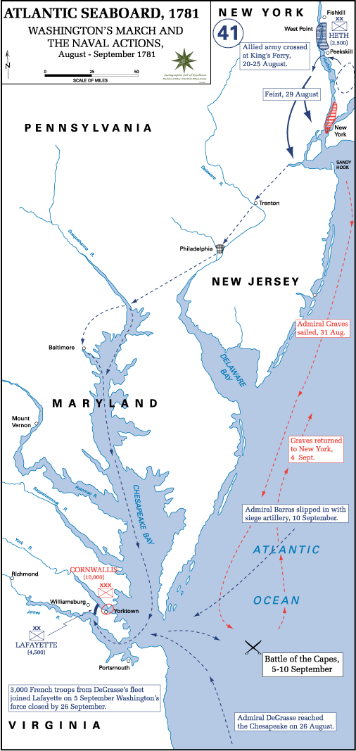 Washington's March & Naval Actions Map August-September 1781: Fall of 1781 presented Continental Army General George Washington with an important opportunity - that of trapping and defeating British General Lord Cornwallis at a small Virginia port town named Yorktown. Cornwallis had been ordered to take a post with his army and await the arrival of a Royal Navy fleet to extract him. Washington learned of this and left a "ghost army" outside New York to fool the British there while moving the bulk of his army south into Virginia. After taking precautions to prevent his leaving by land the entrapment of Cornwallis was complete when the Royal Navy fleet sent for him was defeated by a French fleet off the Virginia Capes. NOTE: Click on the map once to obtain a larger image. (Online Atlas Collection, History Department, U.S. Military Academy at West Point).(this illustration incorrectly asserts that Admiral Graves returned to New York on September 4th.)